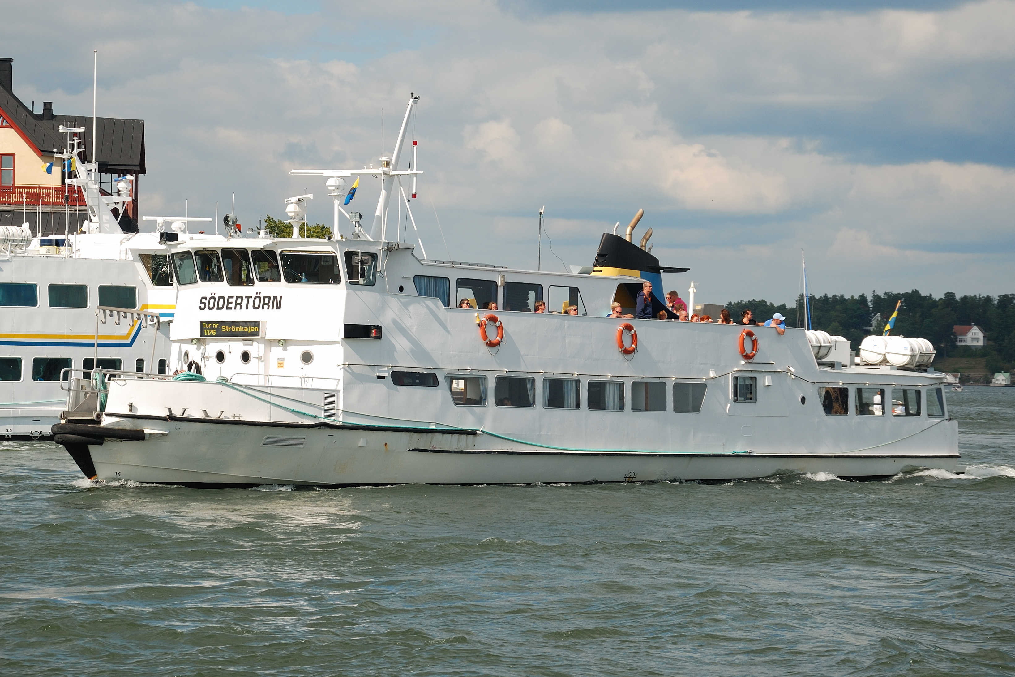 M/S Södertörn (former M/S Östan)